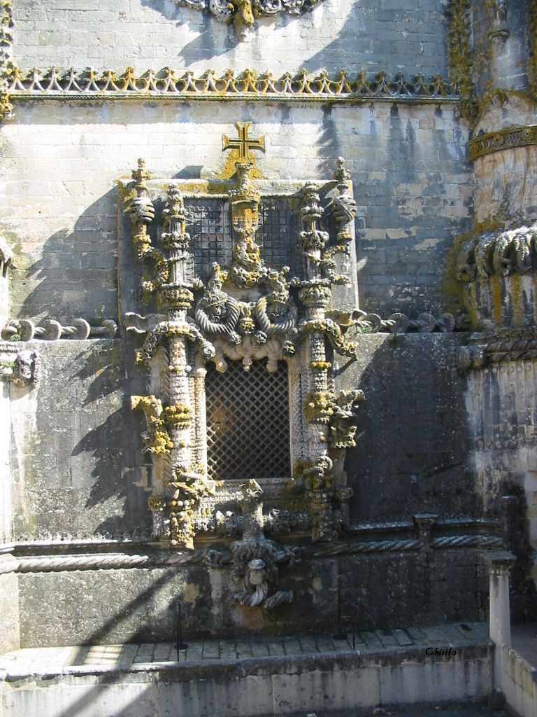 Tomar Convento de Cristo Chapter Window Photo by Cristian Chirita Submitted By Cristian Chirita